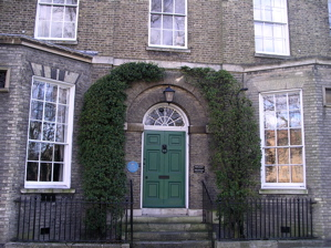 Gwen Raverat's childhood home, now part of Darwin College, University of Cambridge, UK. Photo by Kevin Taylor.